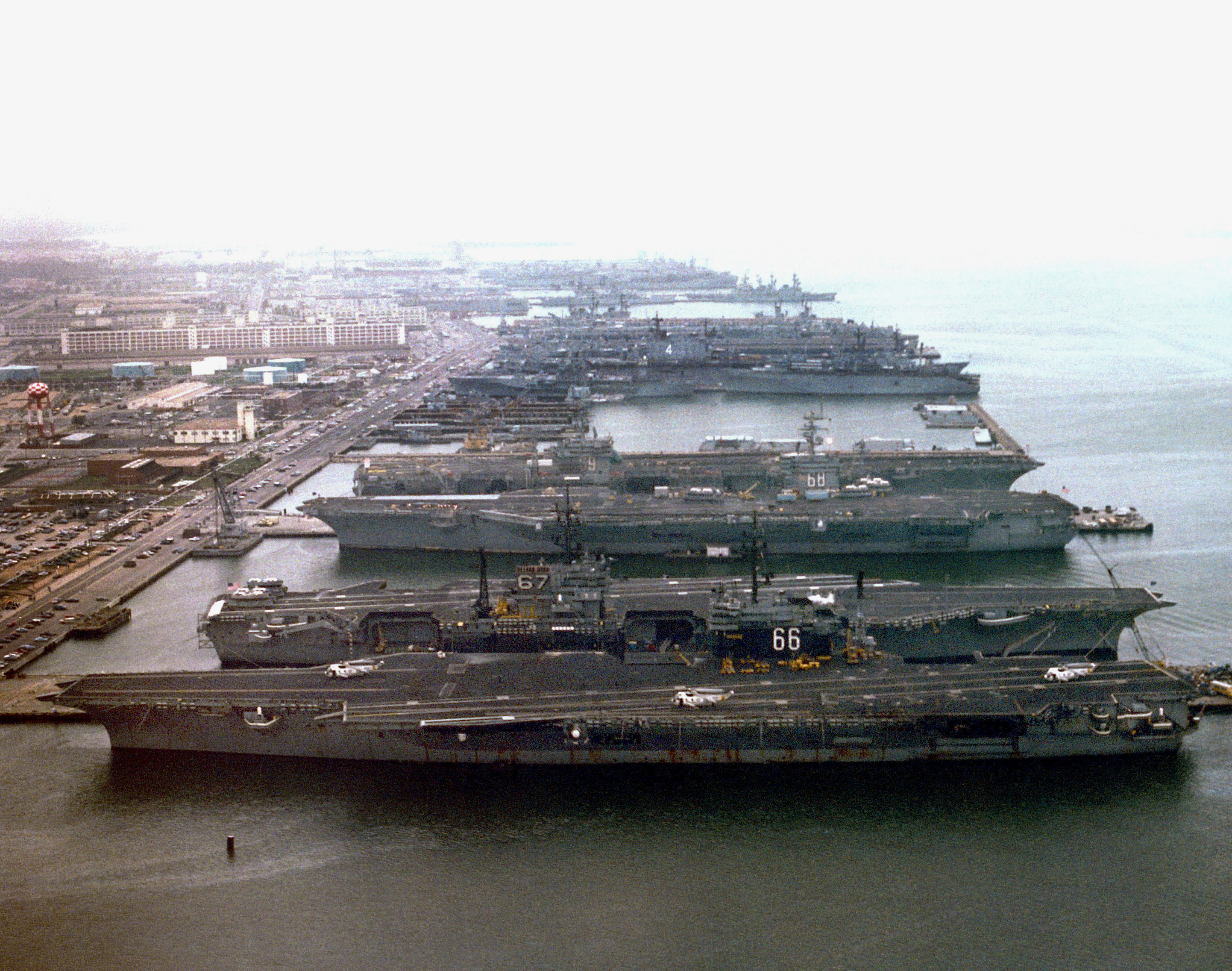 The U.S. Navy aircraft carriers USS America (CV-66), USS John F. Kennedy (CV-67), USS Nimitz (CVN-68), and USS Dwight D. Eisenhower (CVN-69) moored at piers 11 and 12 at Norfolk Naval Station, Virginia (USA), in 1985.